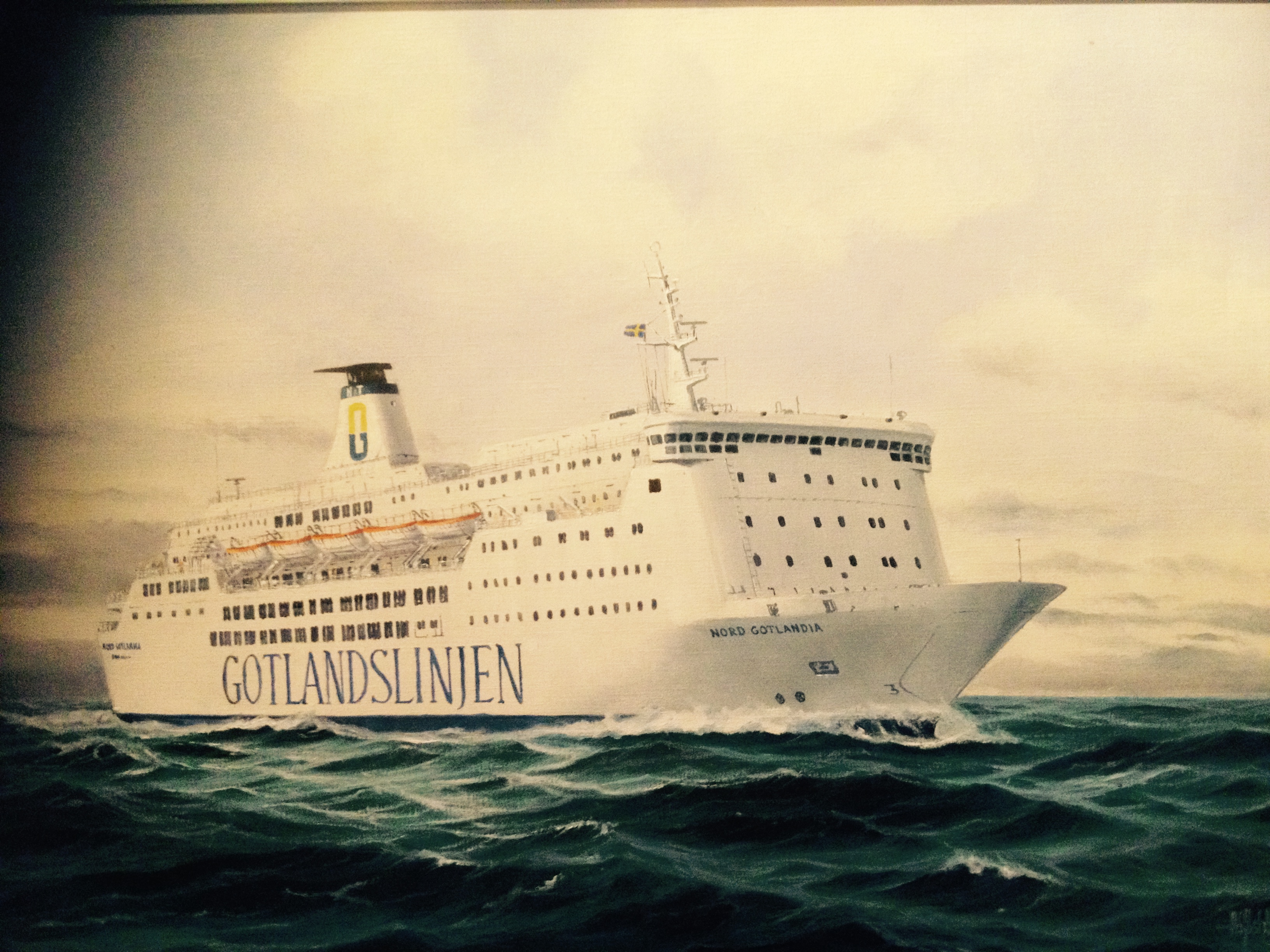 Painting of MS Nord Gotlandia at the Maritime Museum in Stockholm.